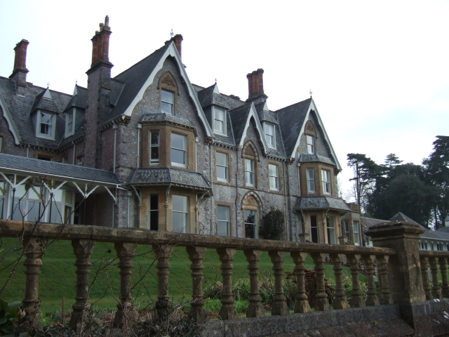 Brunel Manor. The view from below the terrace shows the stone balustrade. Health and safety concerns mean that there is a wire fence to keep guests away from the stonework.